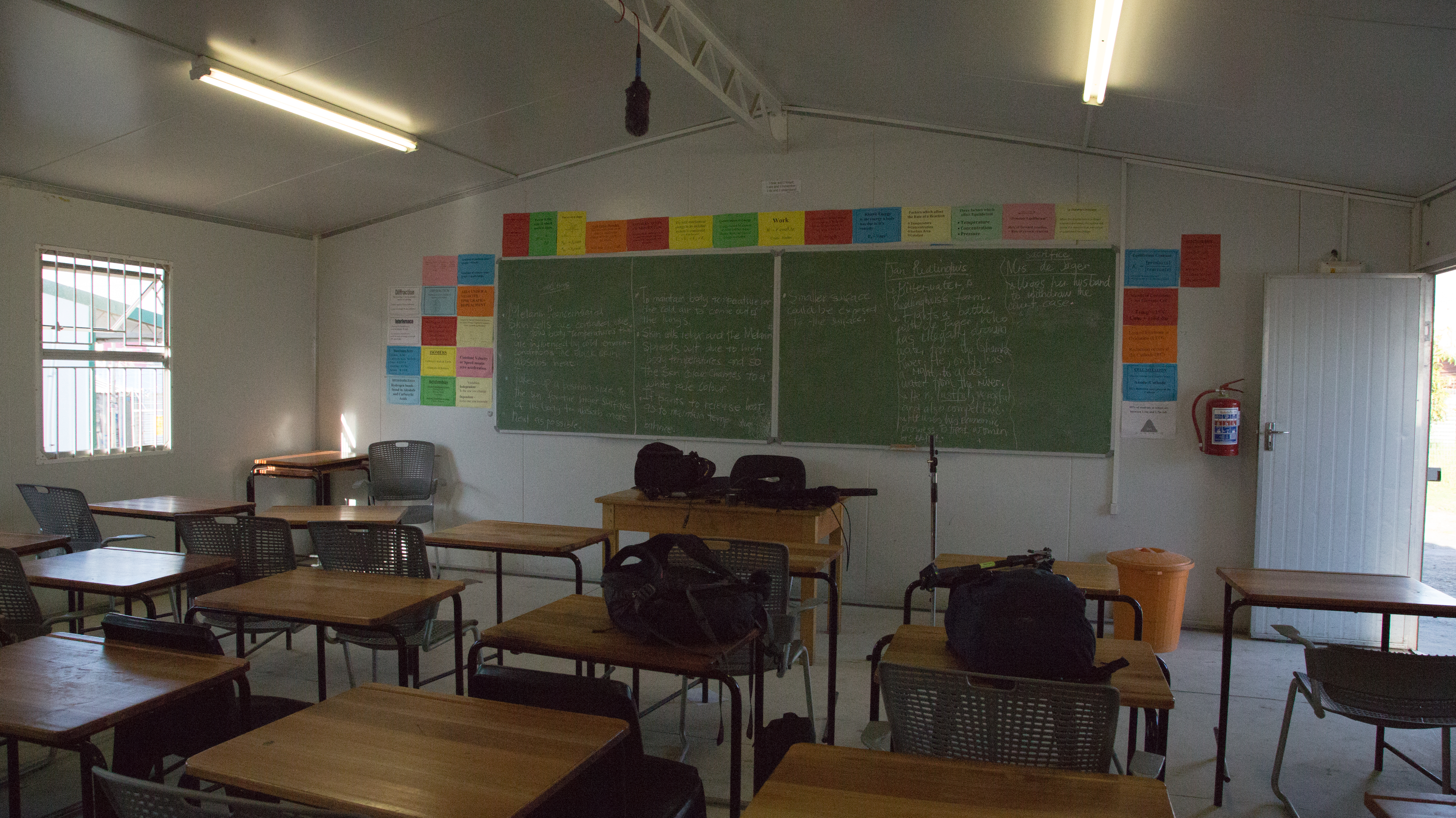 Sinenjongo High School, Joe Slovo Park, Cape Town, South Africa